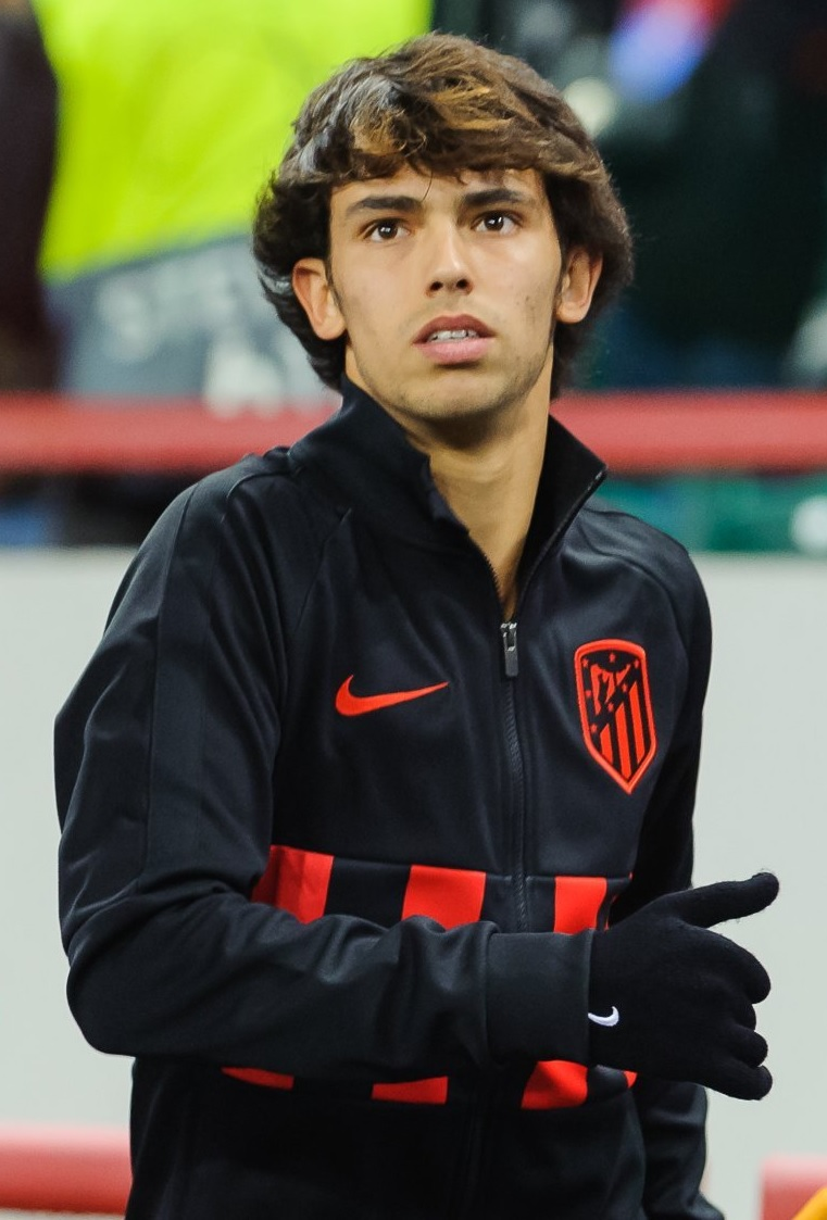 João Félix with Atlético Madrid before a Champions League game against FC Lokomotiv Moscow.